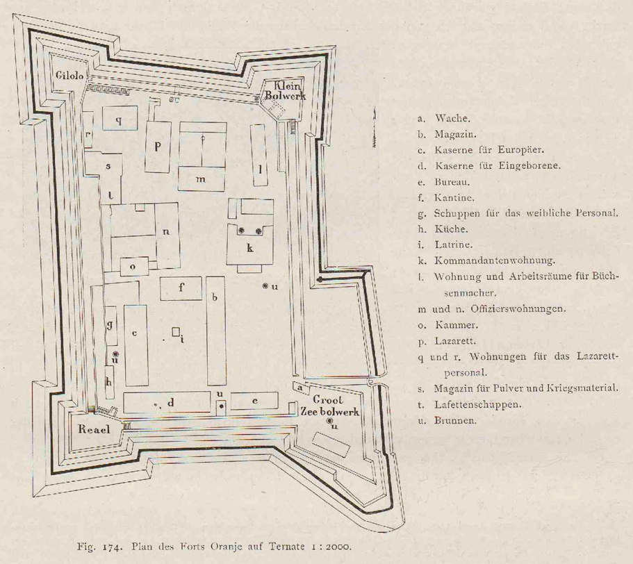 Illustration on page 400 from Wichmann, Carl Ernst Arthur (1917) Nova Guinea : résultats de l'expédition scientifique néerlandaise à la Nouvelle-Guinée en 1903. Vol. IV: Bericht über einde im Jahre 1903 ausgeführte Reise nach Neu-Guinea, Leiden: Brill